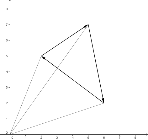 illustration for leibniz's sector formula